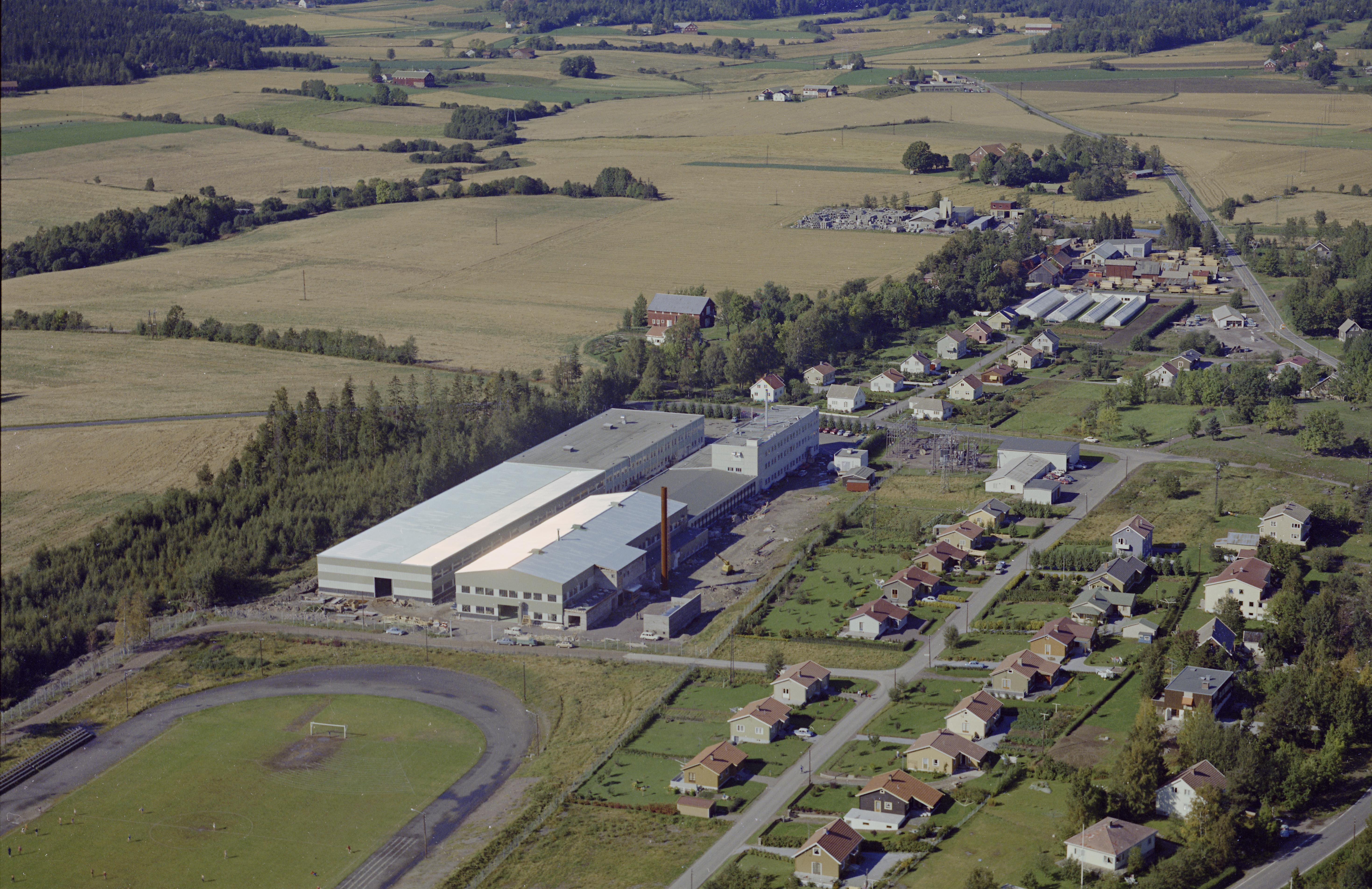 WF.HM.205283